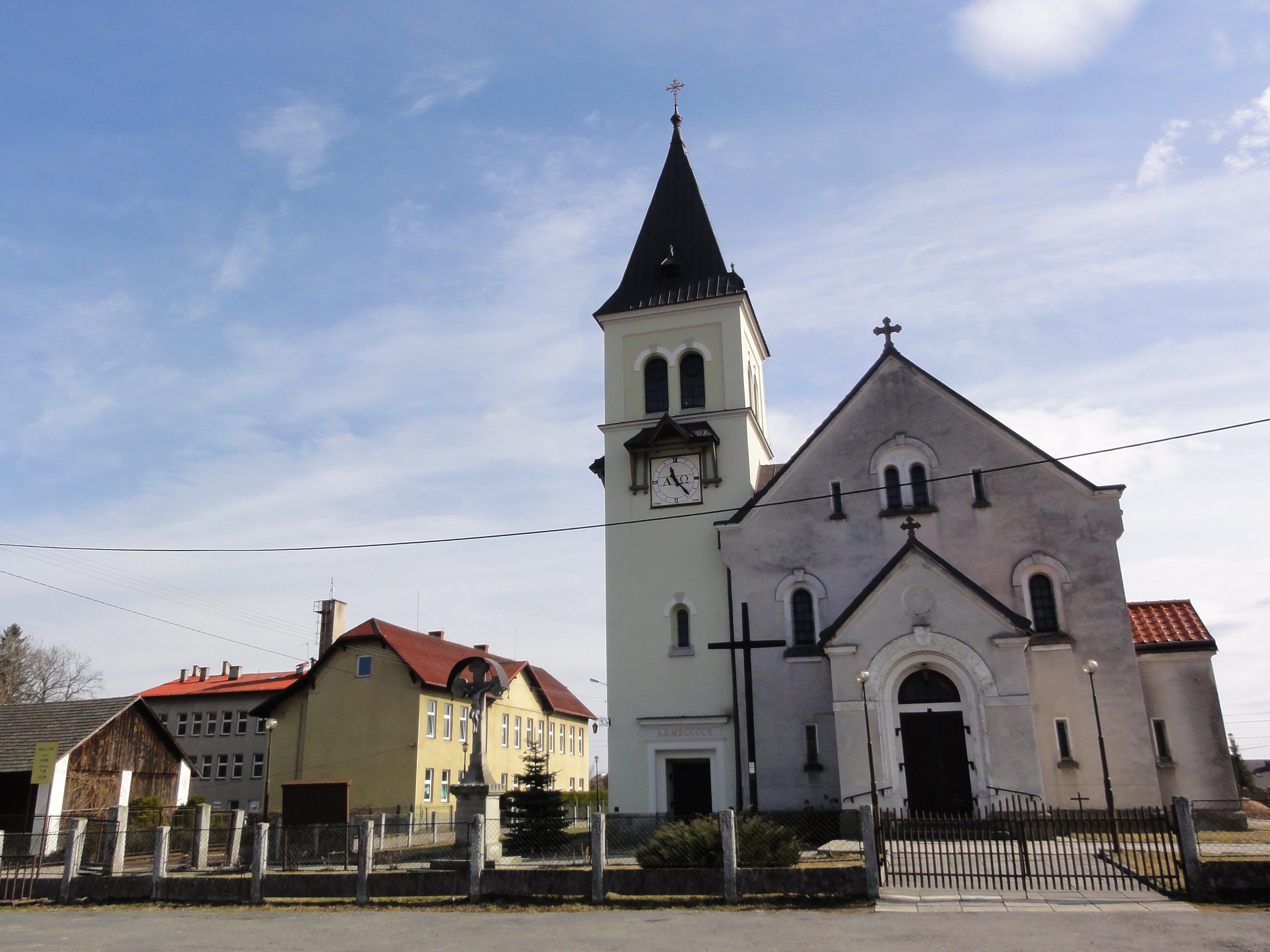 Elementary school and Saint Barholomew church in Hażlach